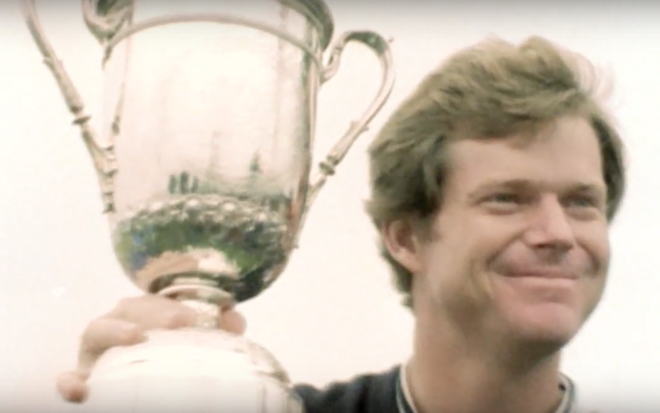 Tom Watson American Golfer after winning the 1982 US Open at Pebble Beach Golf Course California